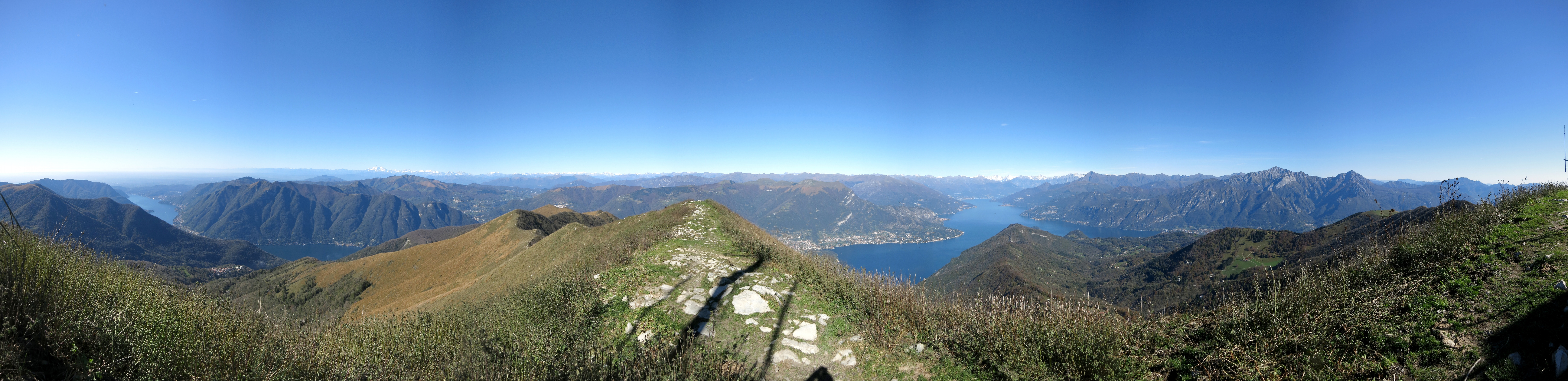 Panorama from Monte San Primo, Italy